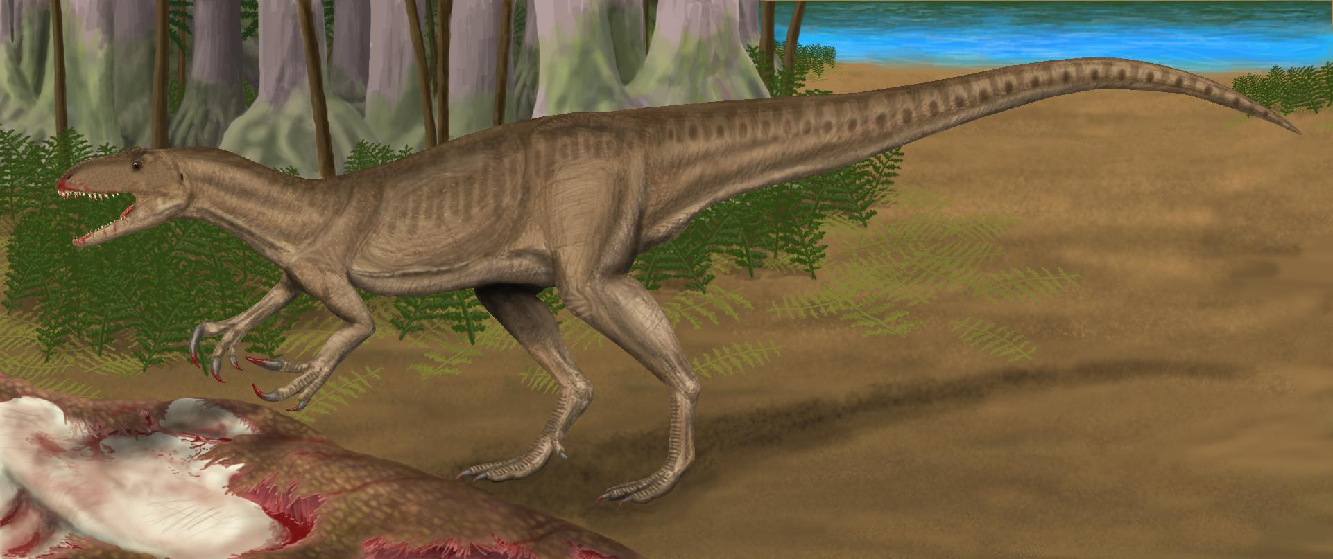 Life restoration of Australovenator wintonensis scavenging from a carcass of Diamantinasaurus matildae. Based on fig. 2 of Hocknull, Scott A.; White, Matt A.; Tischler, Travis R.; Cook, Alex G.; Calleja, Naomi D.; Sloan, Trish; and Elliott, David A. (2009). "New mid-Cretaceous (latest Albian) dinosaurs from Winton, Queensland, Australia". PLoS ONE 4 (7). Head based on that of Neovenator salerii.